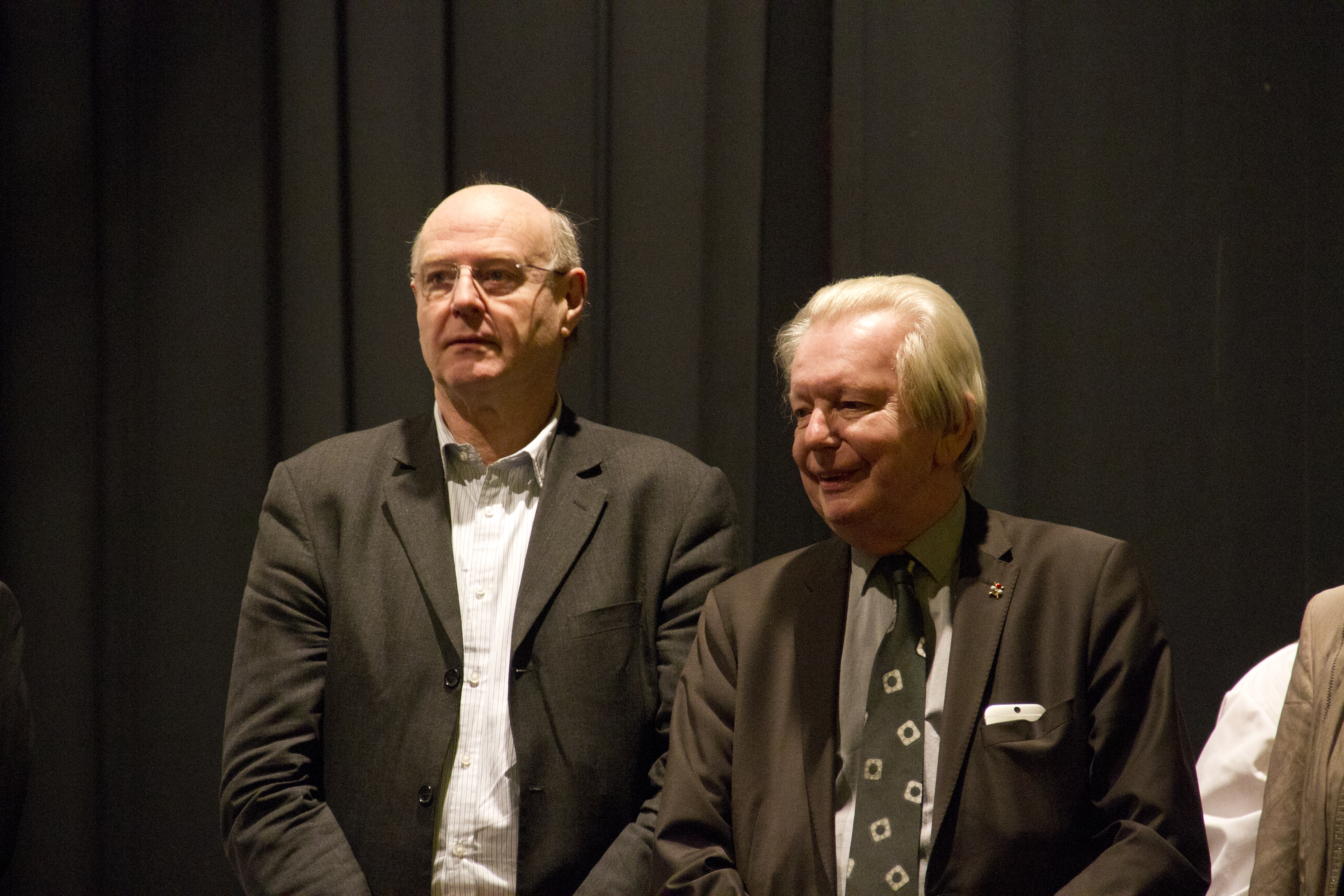 DBU-President Michael John (left) and UMB-President Jean-Claude Dupont.